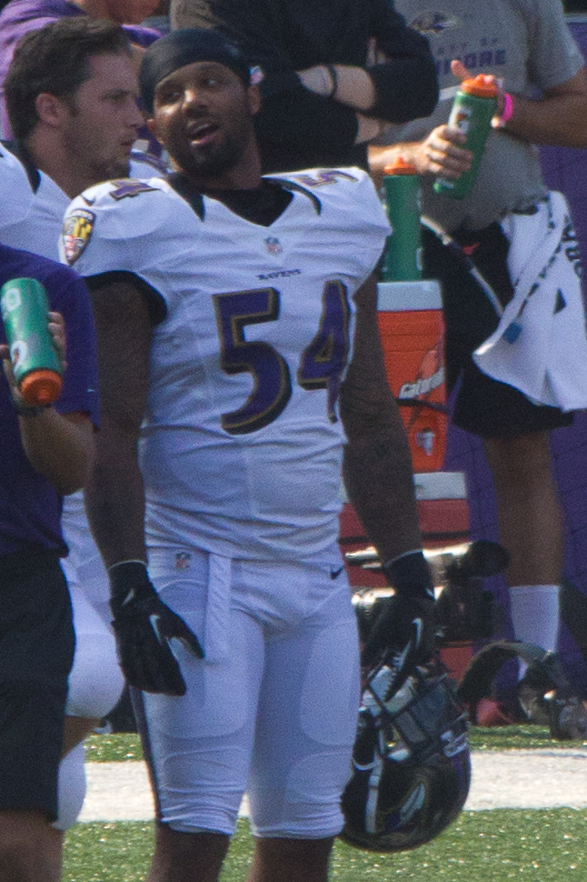 Darryl Blackstock at Ravens M&T Bank Stadium practice in August 2012